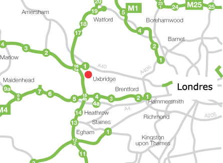 Map of Uxbridge city, in the Metropolitan Area of London, England.